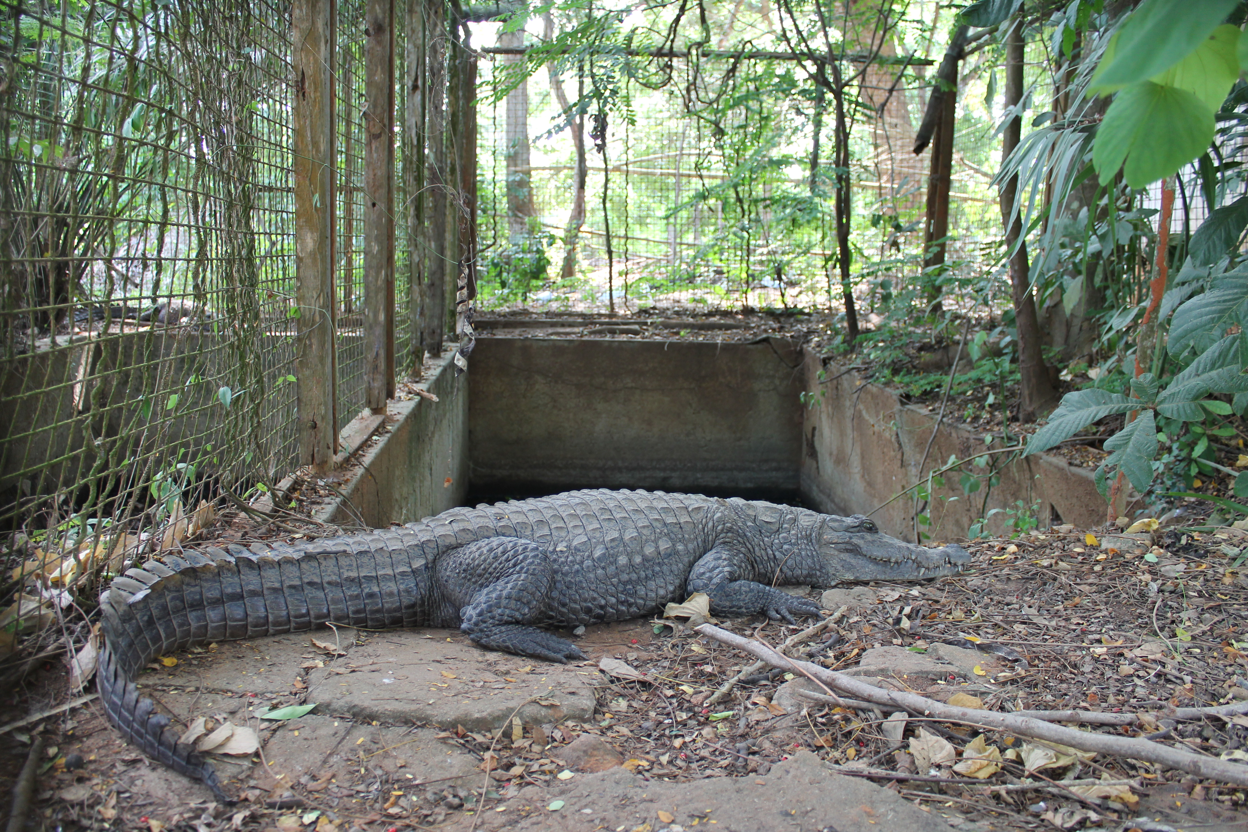 A miniature zoo